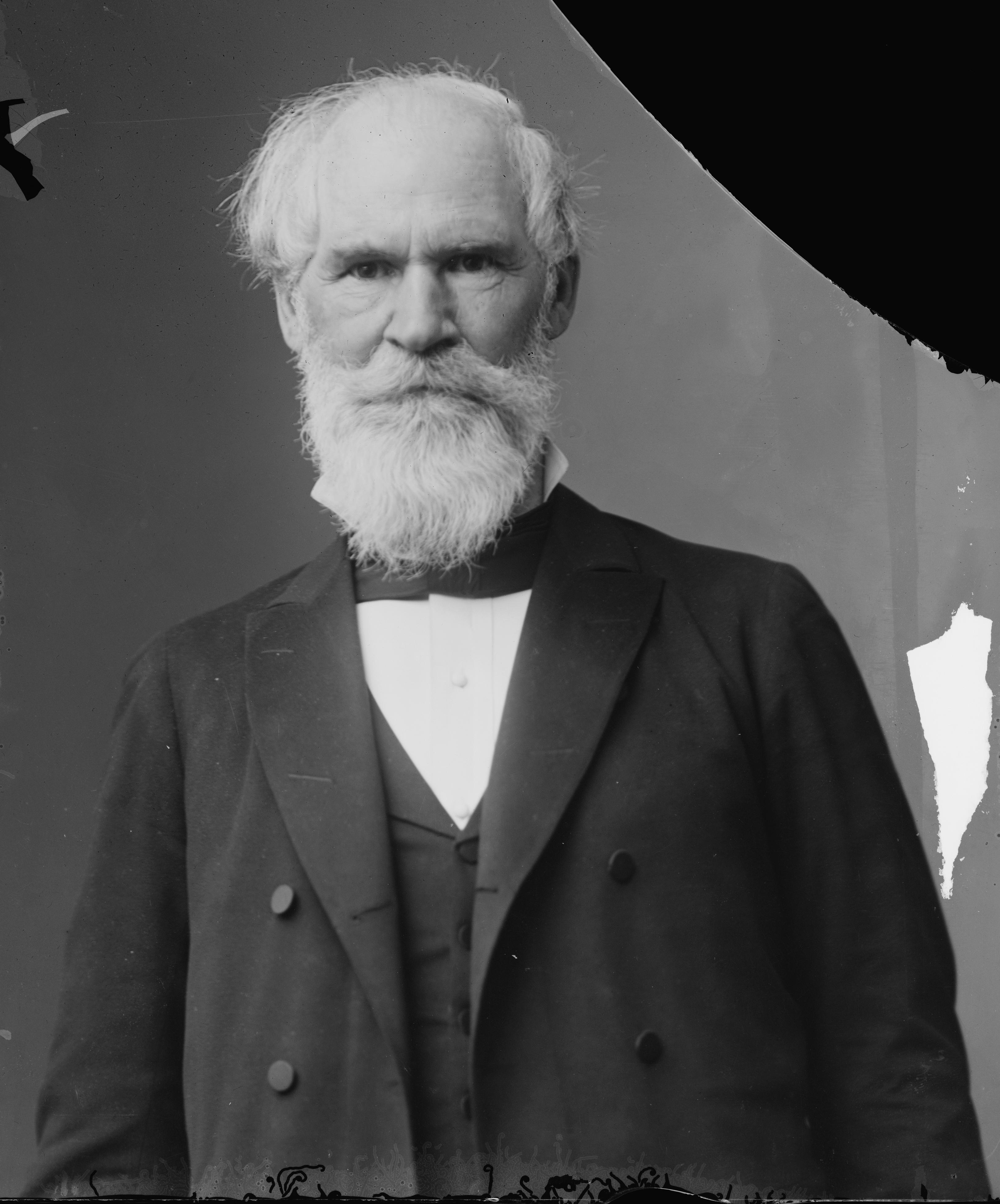 Galusha A. Grow. Library of Congress description: "Hon. Galusha Aaron Grow of Pa."